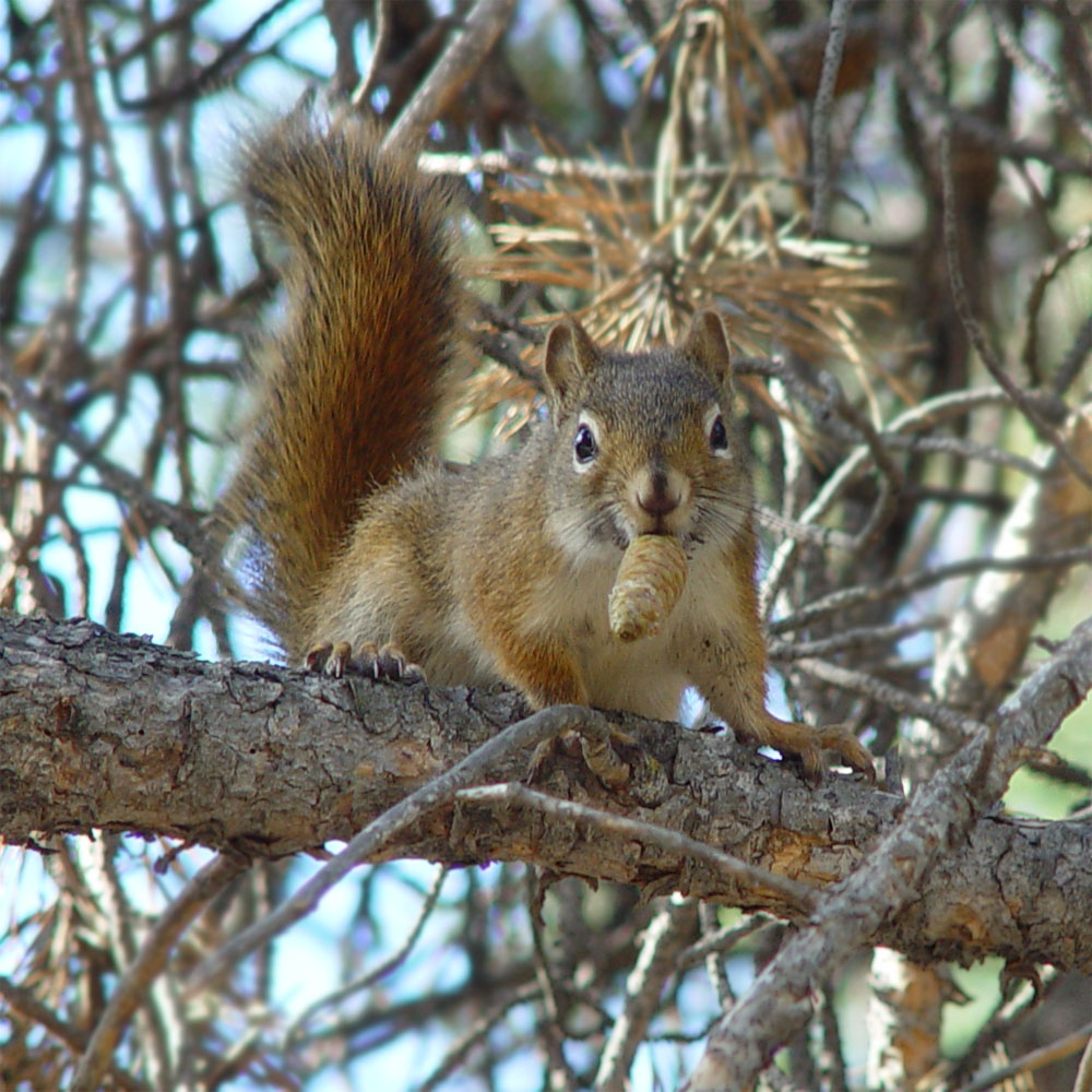 Description: Tamiasciurus hudsonicus Date: September 07, 2002 Location: Jasper Park, Alberta (Canada) Photographer: Franco Folini first upload to the Commons as *.png 02:51, 1. Mär 2006 . . Folini (Talk) . . 1000x1000 (1601624 Byte)